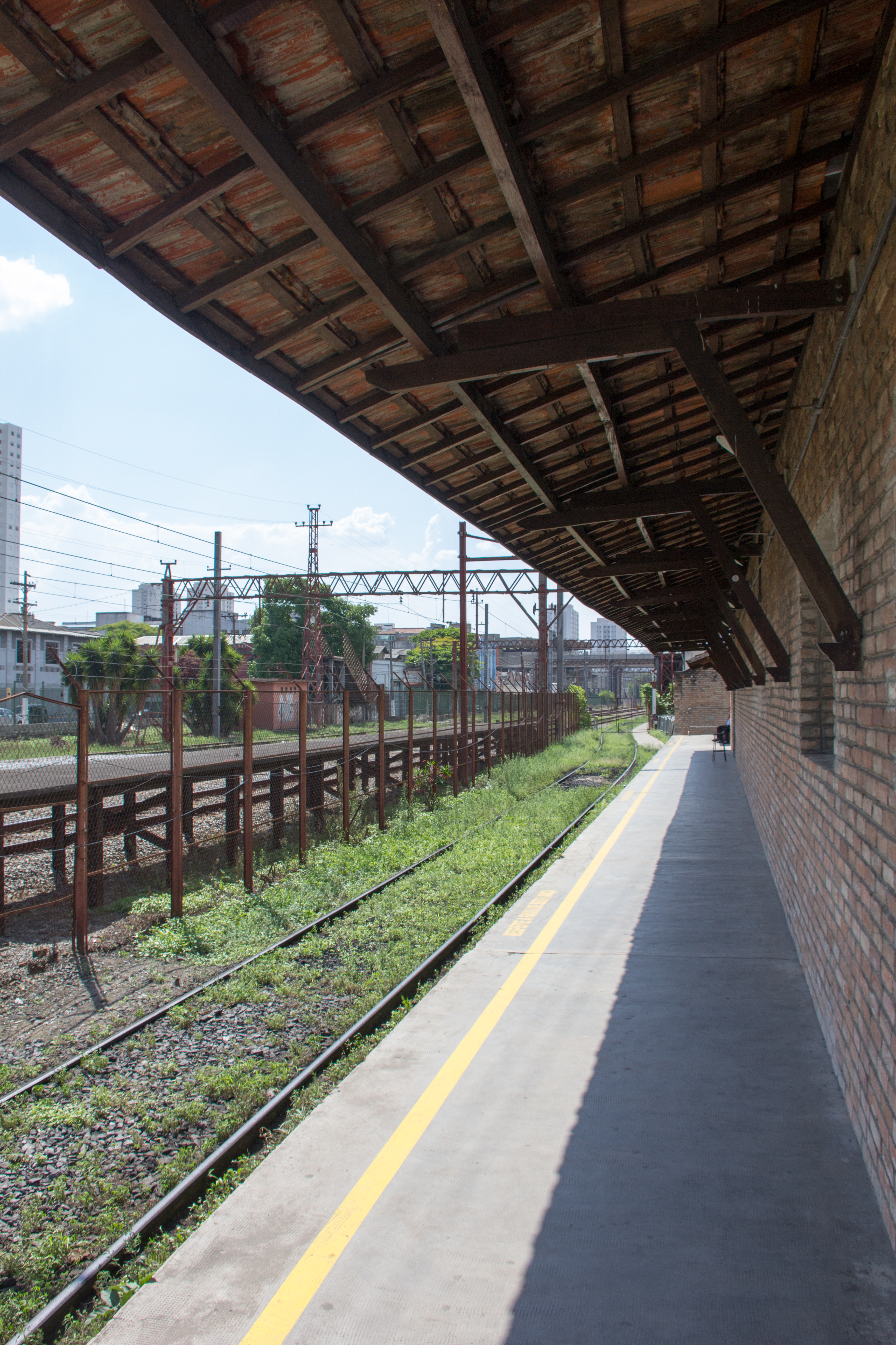 Immigration Museum of the State of São Paulo, São Paulo, Brazil